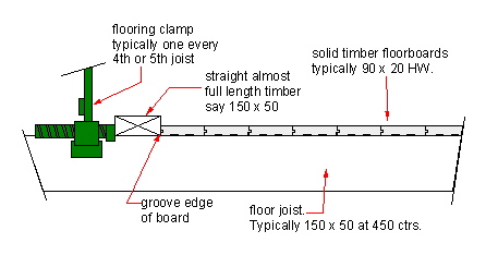 Side view of flooring clamp in use